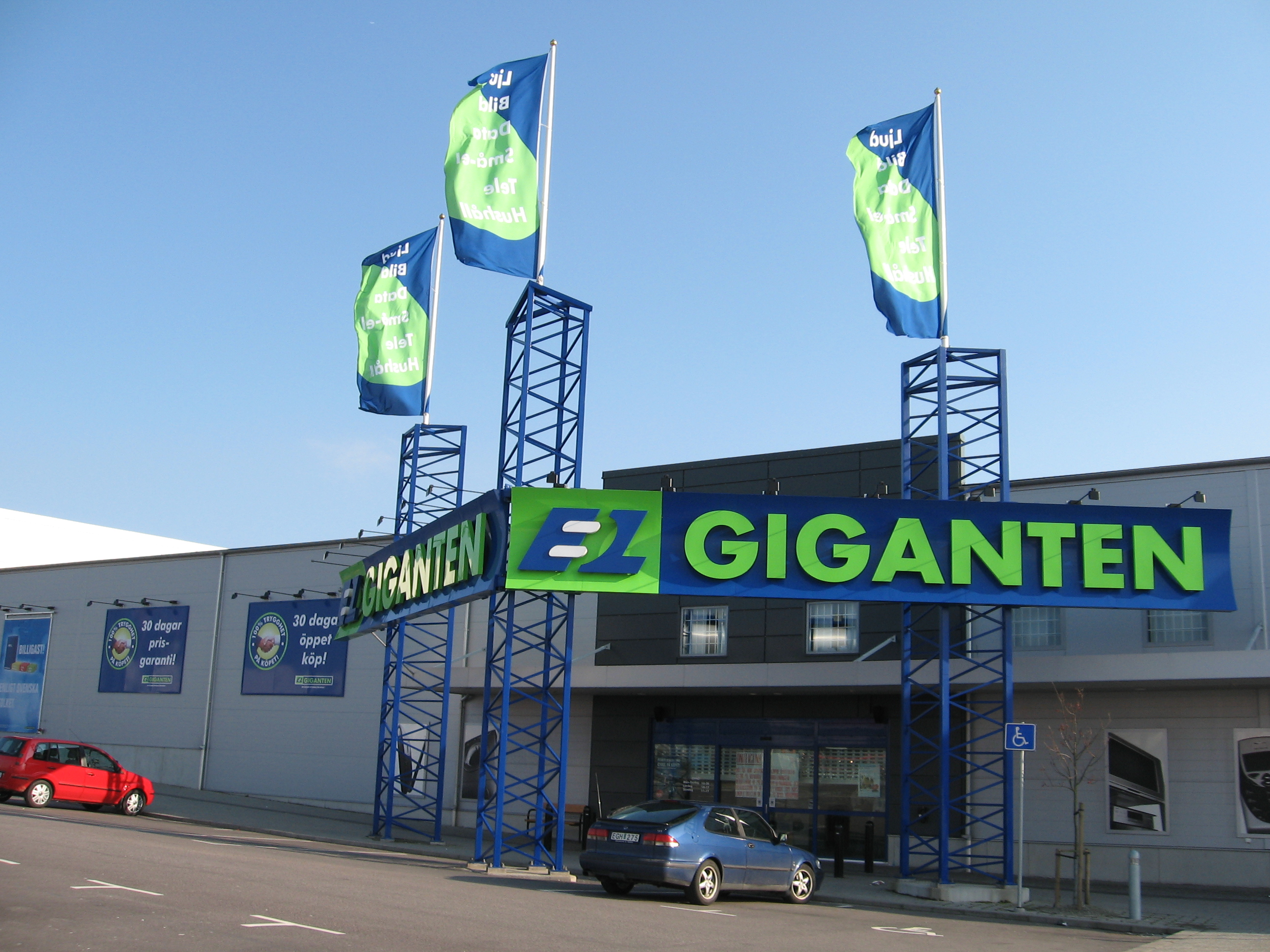 El-Giganten store in Lund, Southern Sweden